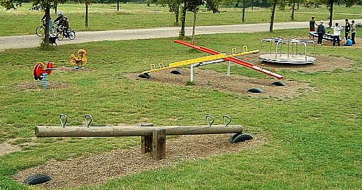 See-saws on a playground in Frankfurt/Main (Germany)